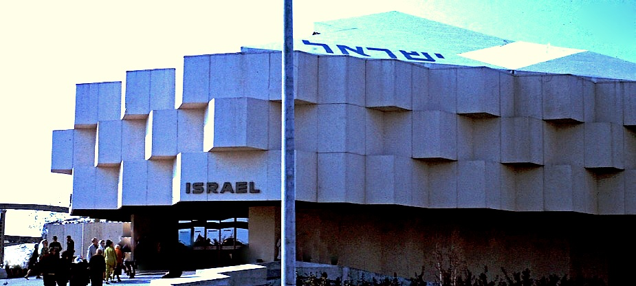 Isreali Pavilion at Universal Exposition of 1967, Montreal, Quebec, Canada